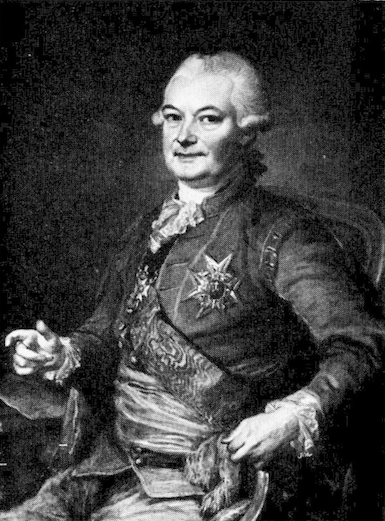 Kreivi, hovioikeuden presidentti, valtiomies Arvid Kurck